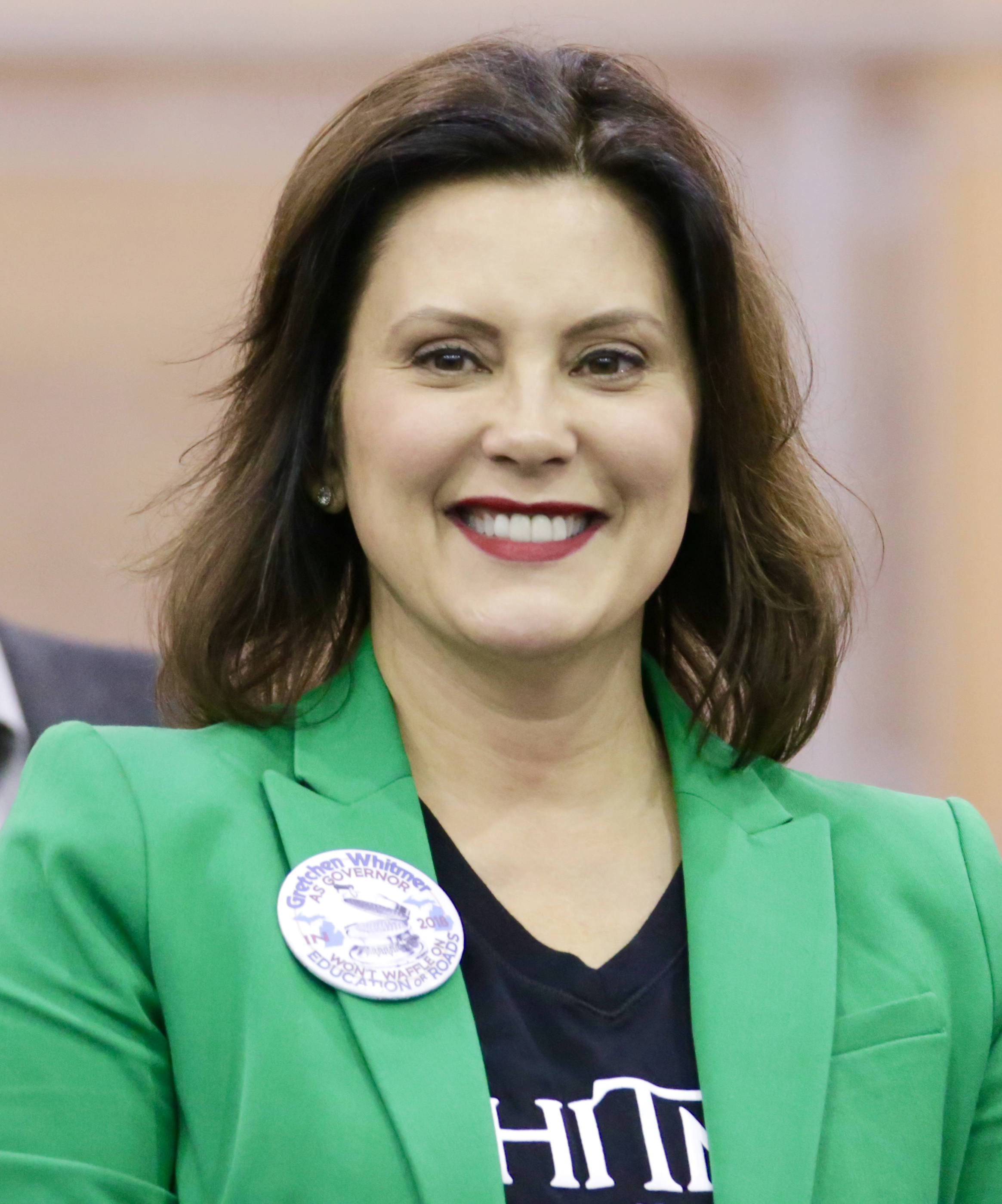 A photo of Gretchen Whitmer taken in Southfield, MI on 11/2/18.